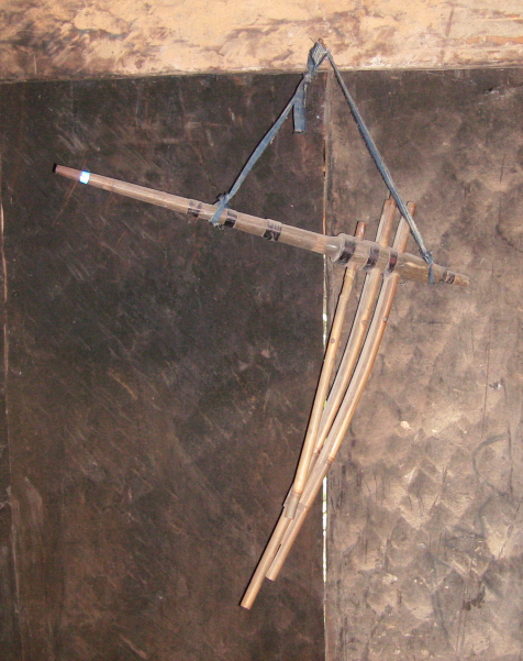 Kenh, a musical instrument of Hmong and Yao peoples in Vietnam.